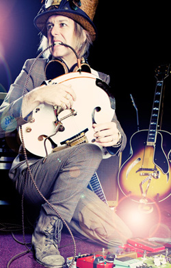 Michael Lockwood in the midst of creation.